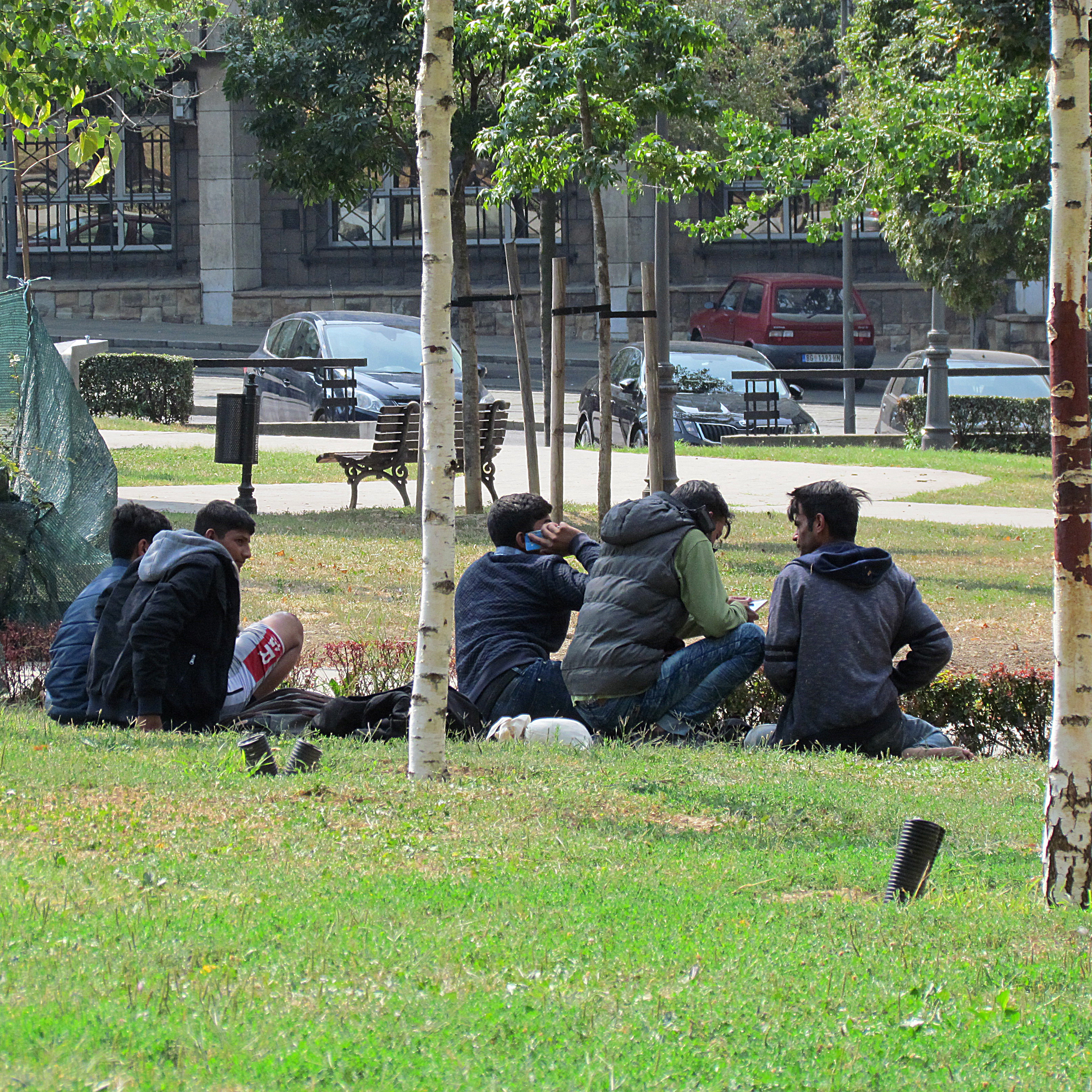 Refugees from Afghanistan in Manjež park, Belgrade